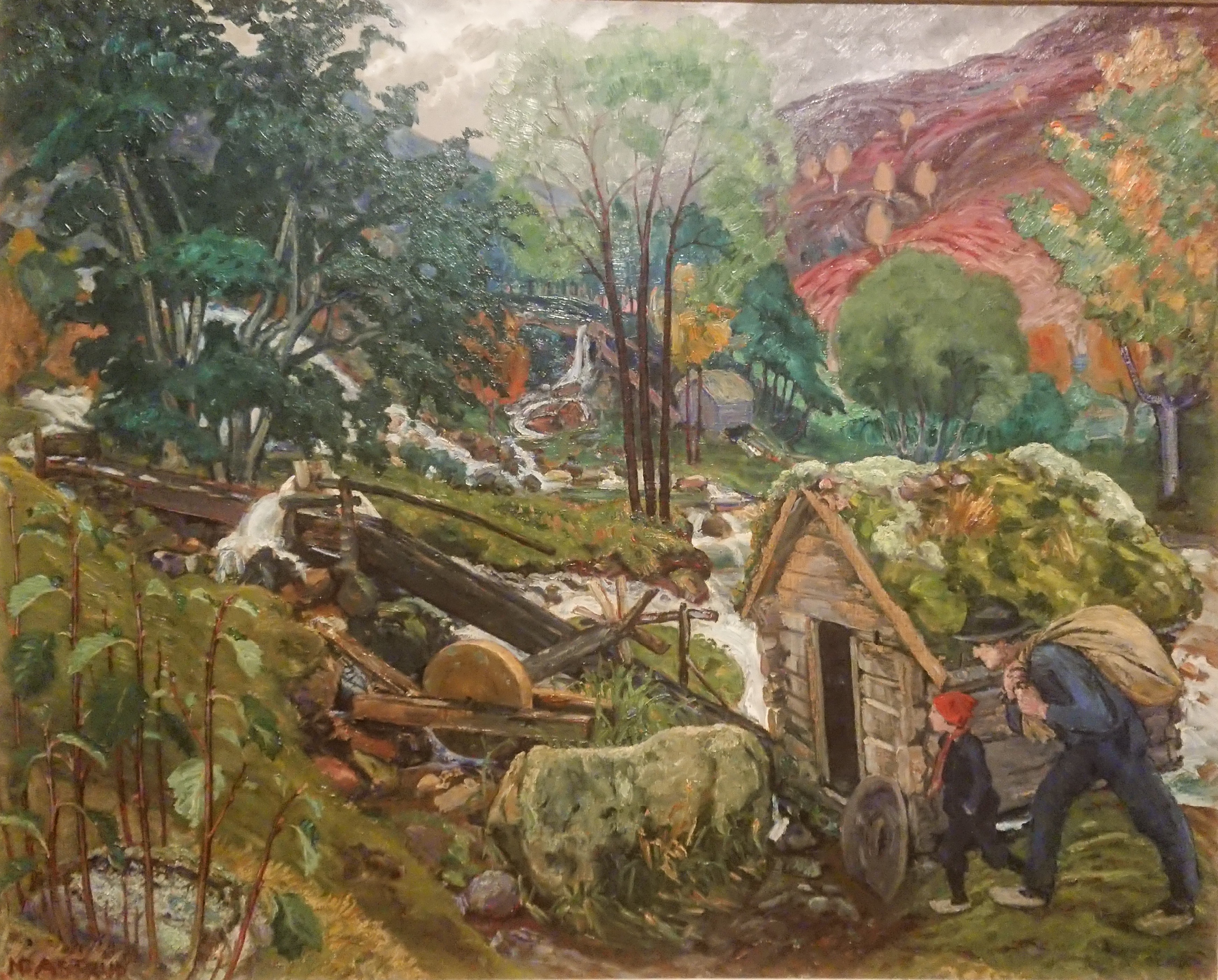 Nikolai Astrup's painting Kvennagongsvatten (milling weather), oil on canvas, 1916, displayed by KODE, Bergen